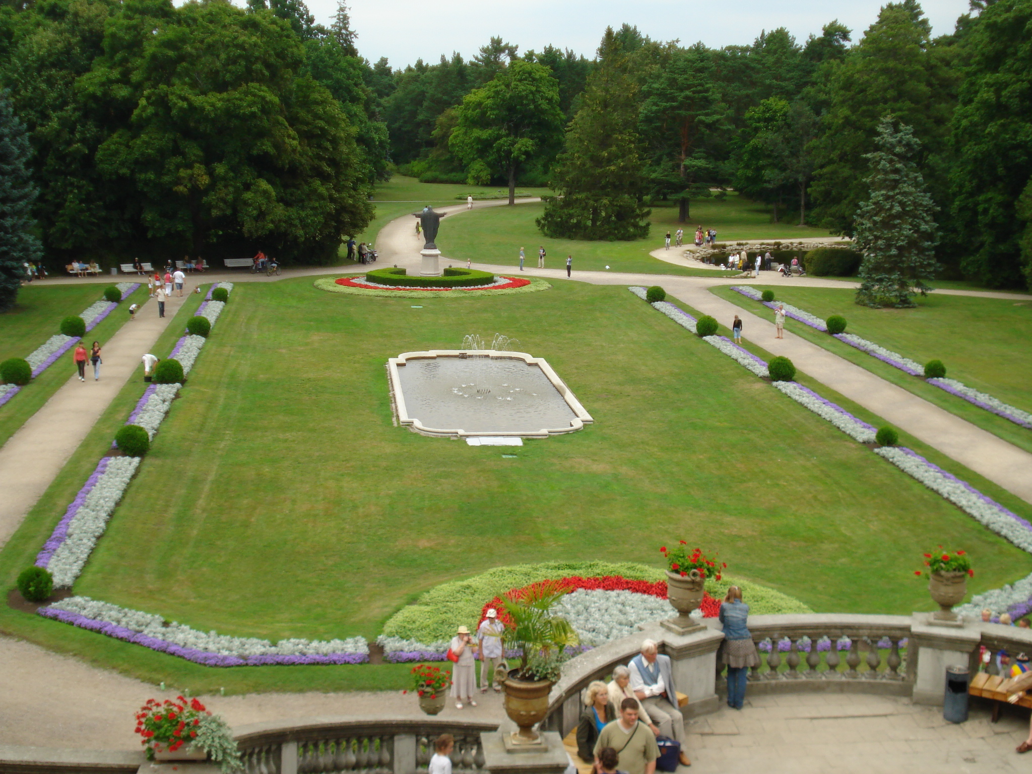 Park of the Tyszkiewicz Palace in Palanga